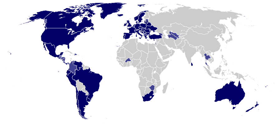 Hague Convention Signatory Countries